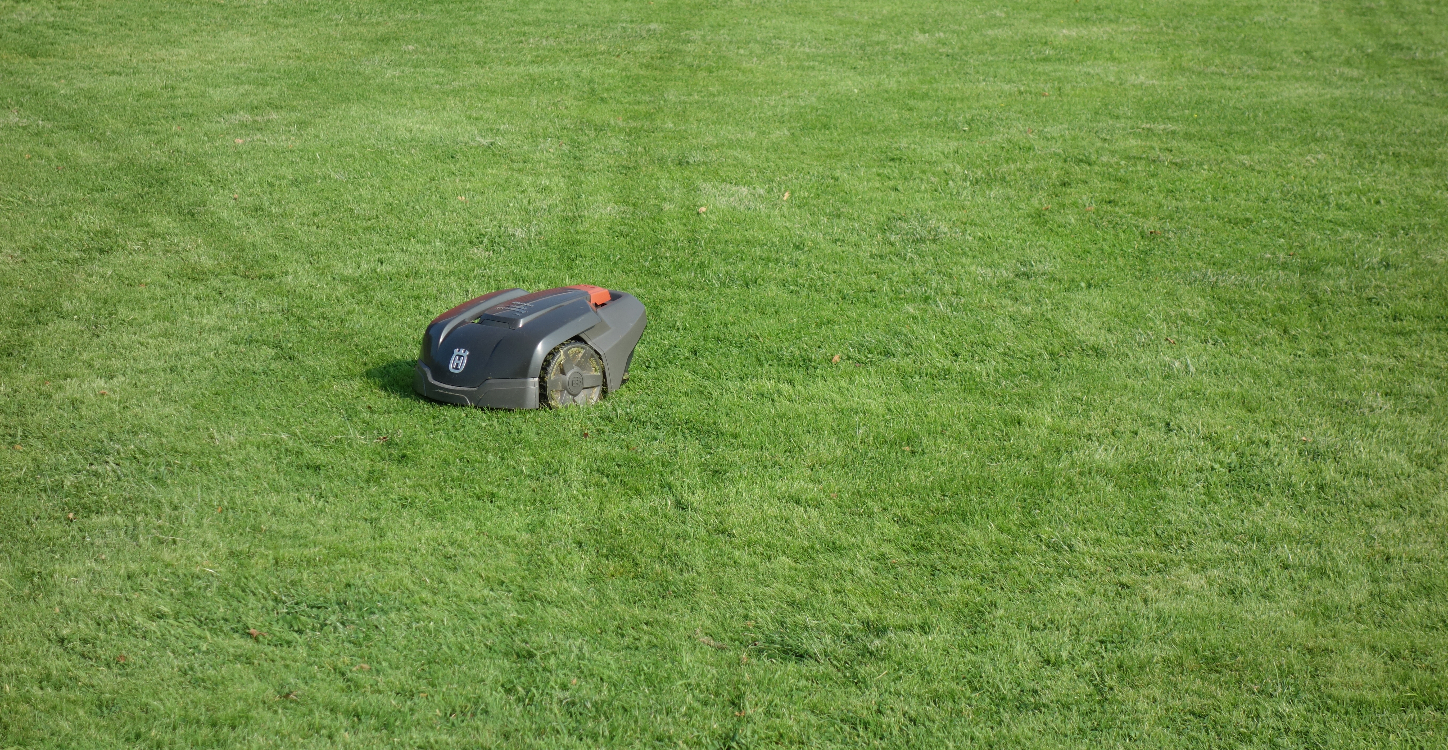 Robotic lawn mower Husqvarna Automower 308 with track marks in lawn at Gåseberg, Lysekil, Sweden. The mower moves in a random "bump and turn" pattern over the lawn.